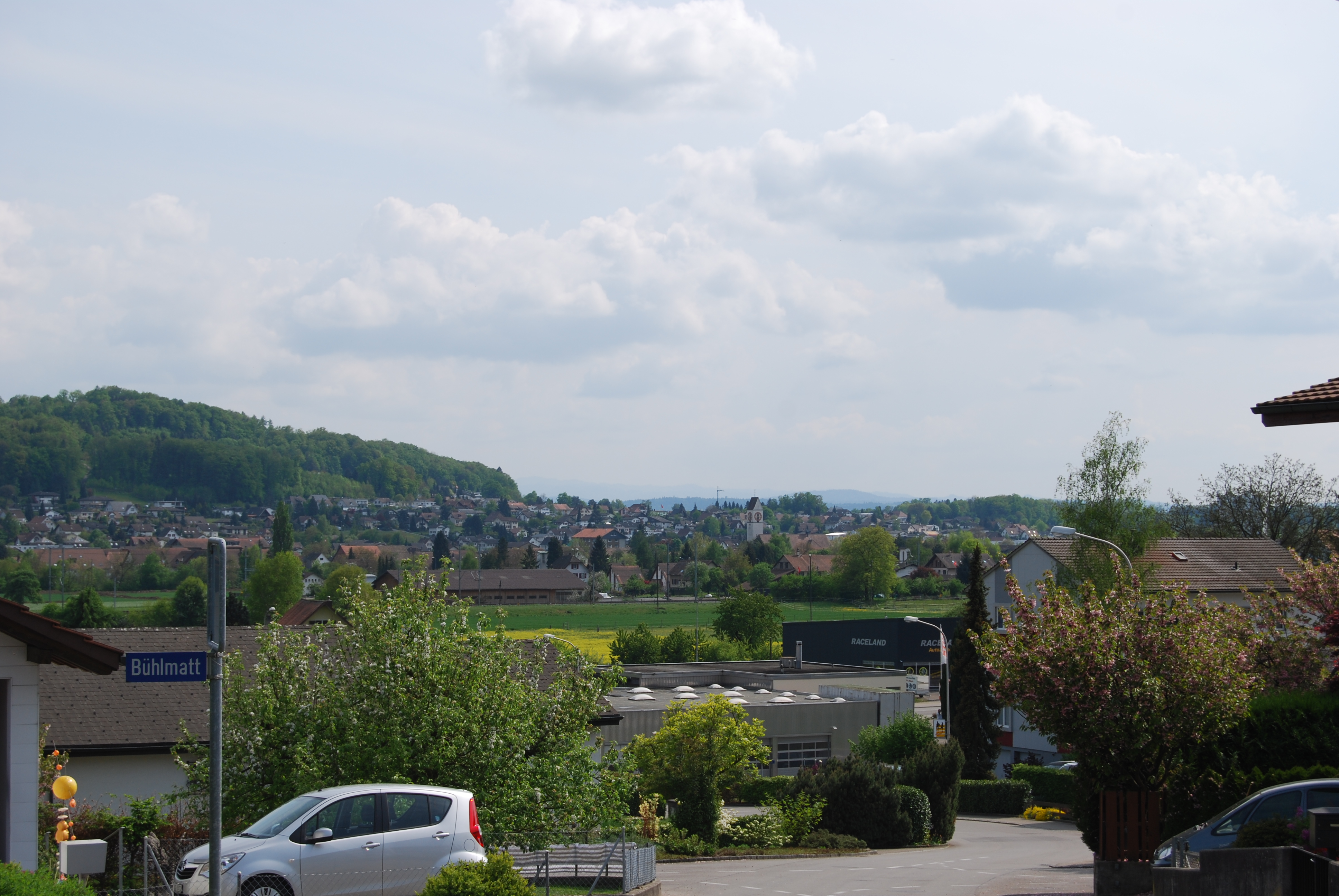 Kappel, canton of Solothurn, Switzerland - seen from Hägendorf